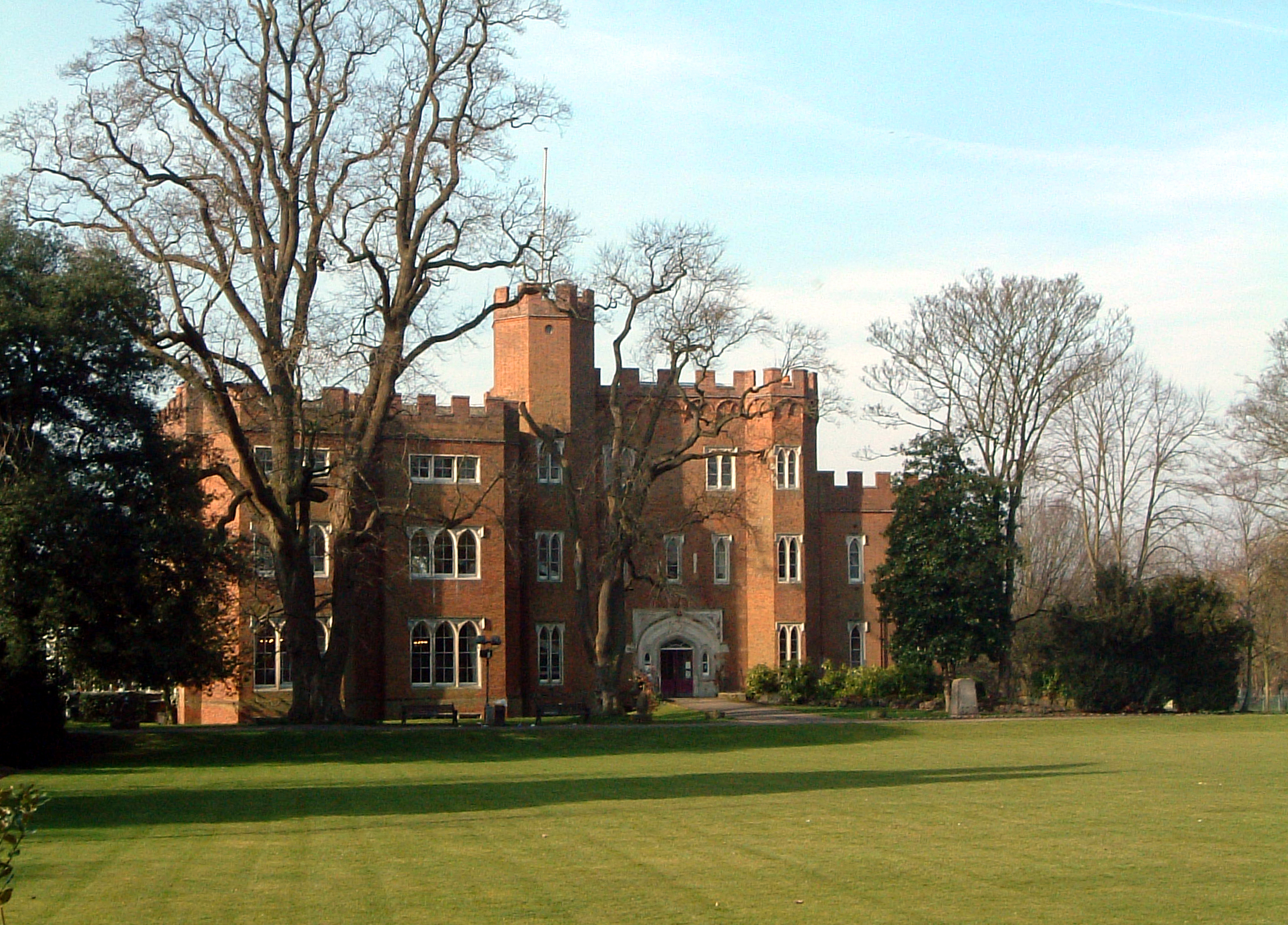 The main castle entrance built by Edward IV in 1463-5, since extended by sections built in the late 1700's and as recently as 1936/7. Now offices of the the Town Council.